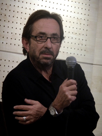 Sam Garbarski at Paris